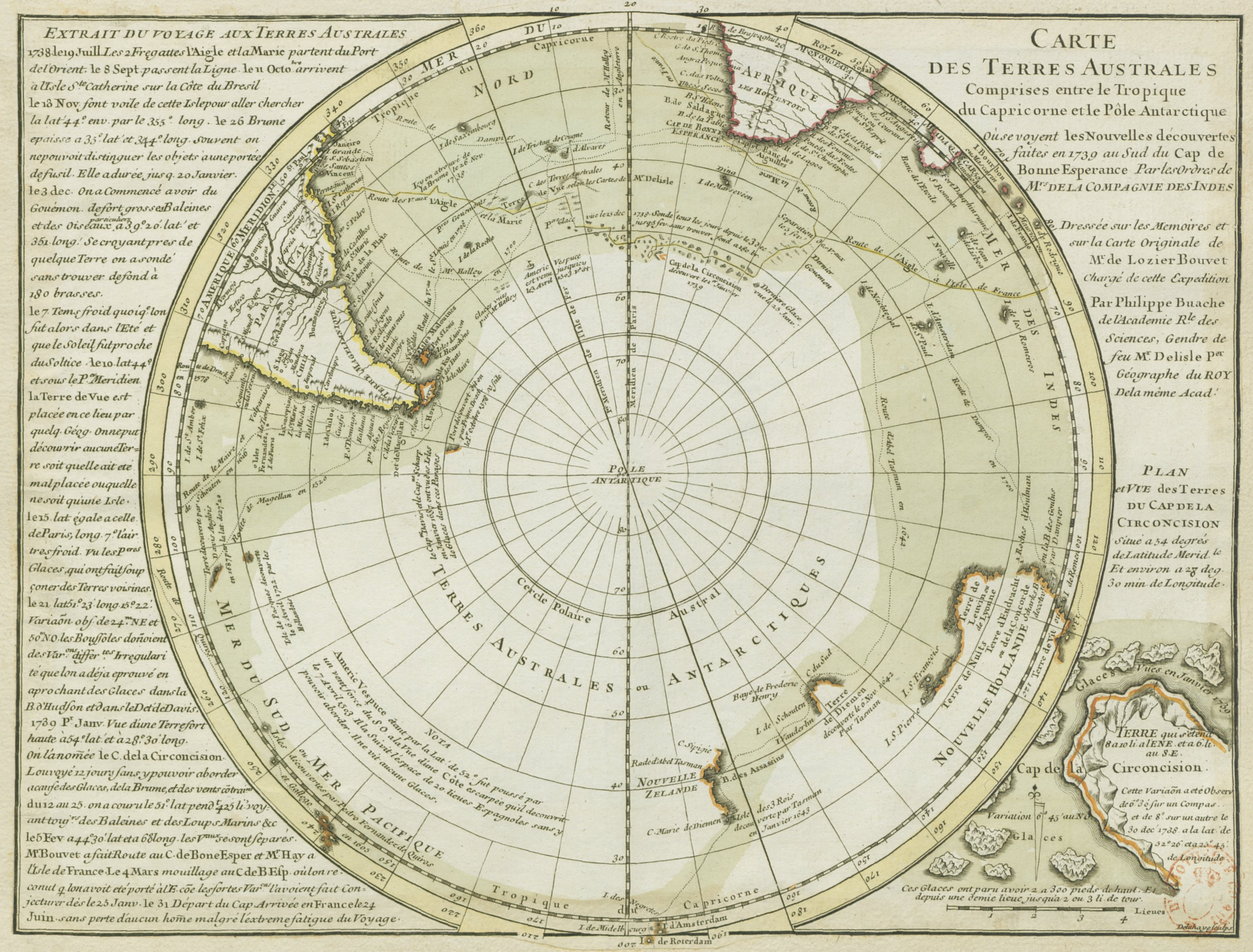 Map of the expedition of Jean-Baptiste Bouvet de Lozier, during which he discovered Bouvet Island in 1739. This map was made immediately after his return (same year). Its French title reads: "Map of the southern lands between the Tropic of Capricorn and the Antarctic Pole, where one sees the New discoveries made in 1739 south of Cape of Good Hope by orders of the (French) East-India Company. Based on the journals and the original map of Mr de Lozier Bouvet, leader of this expedition.